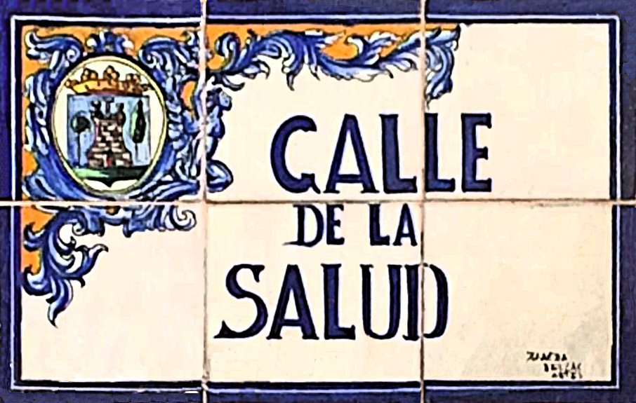 Street sign of Calle de la Salud in Plasencia (Spain).